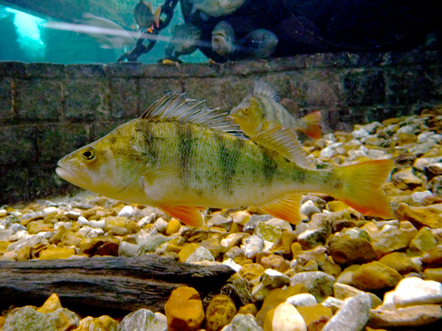 Perca fluviatilis